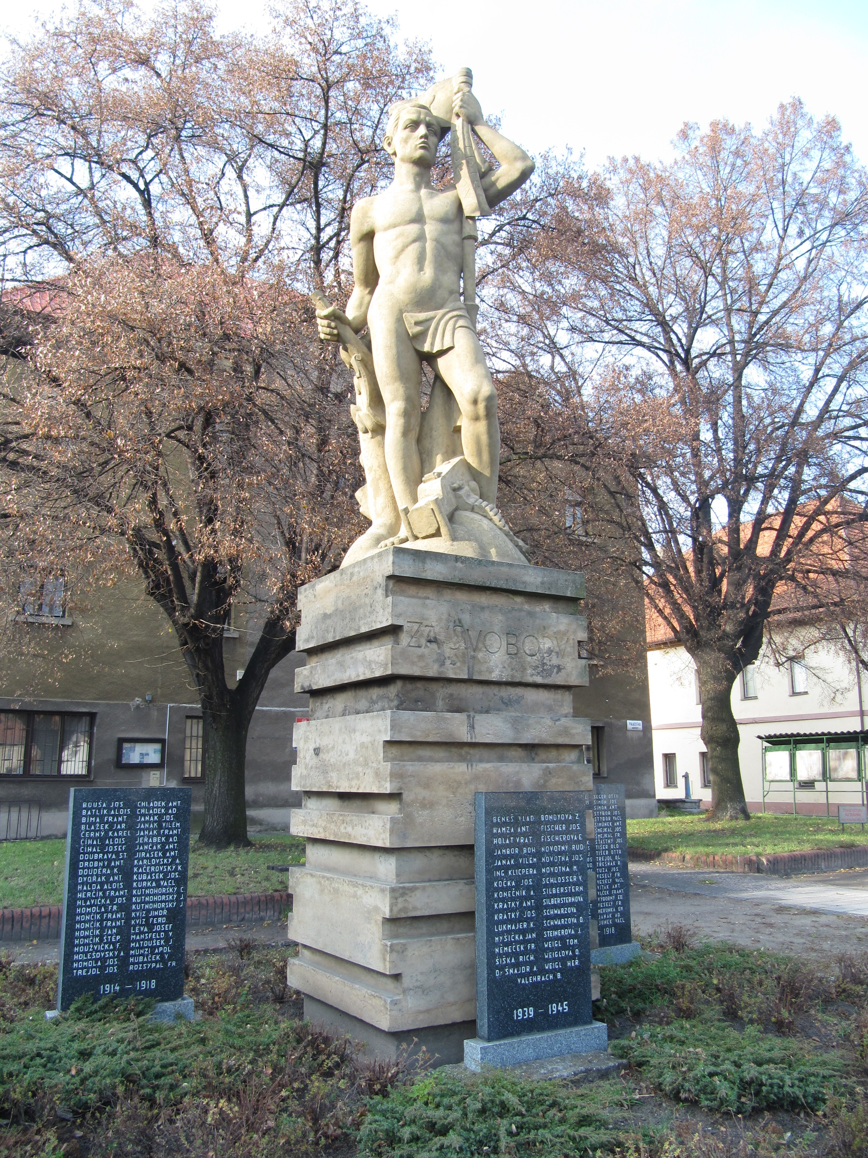 Sadská in Nymburk District, Czech Republic. Square Palackého náměstí. Memorial to the victims of the First World War from 1926 by Rudolf Březa.